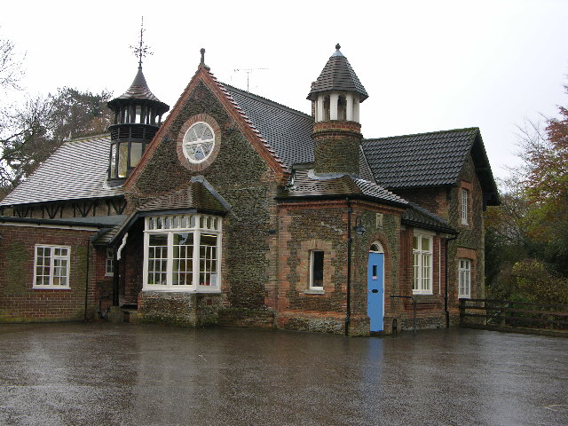 Sandringham and West Newton Church of England Primary School.